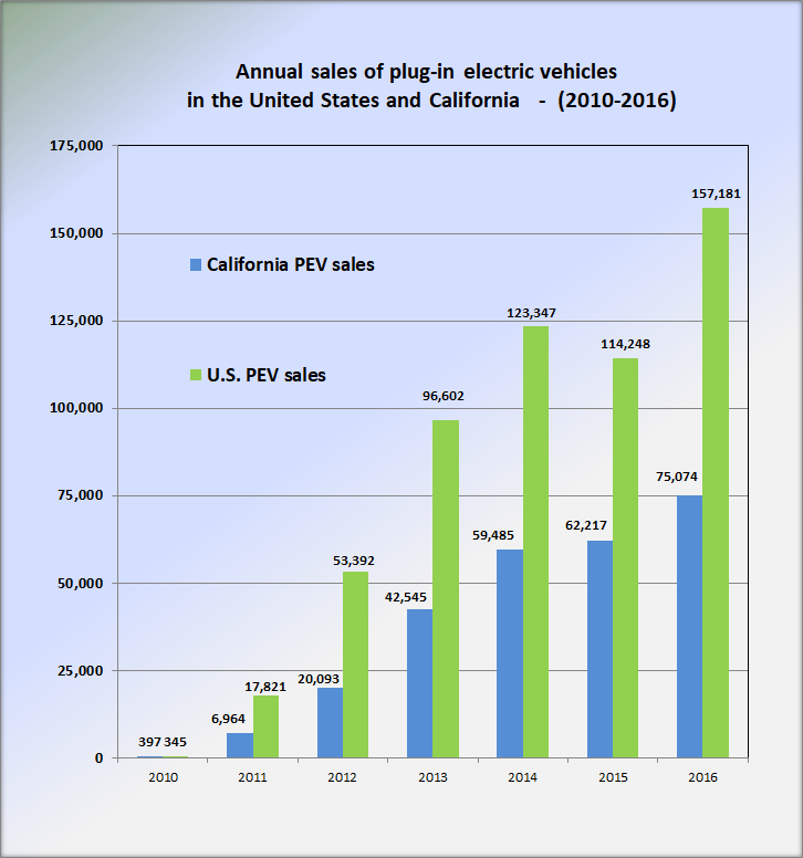 Graph showing historical sales of plug-in electric vehicles in the United States and California from December 2010 through December 2014. Data series taken from the California New Car Dealer Association (2014 and previous years and for 2015 and 2016) and .